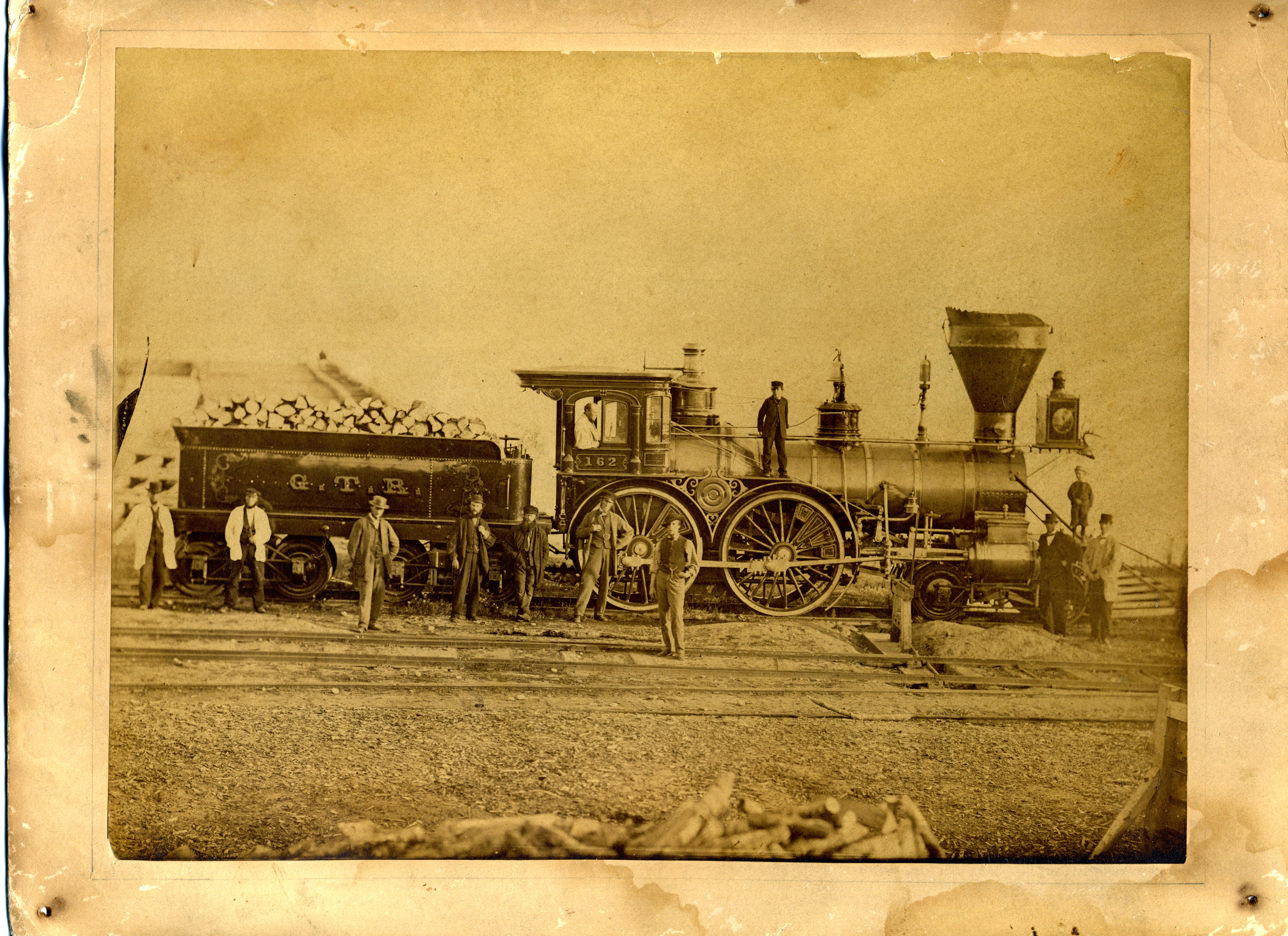 Grand Trunk Railway locomotive 162 with fuel tender full of logs. Donated by Evelyn Green.